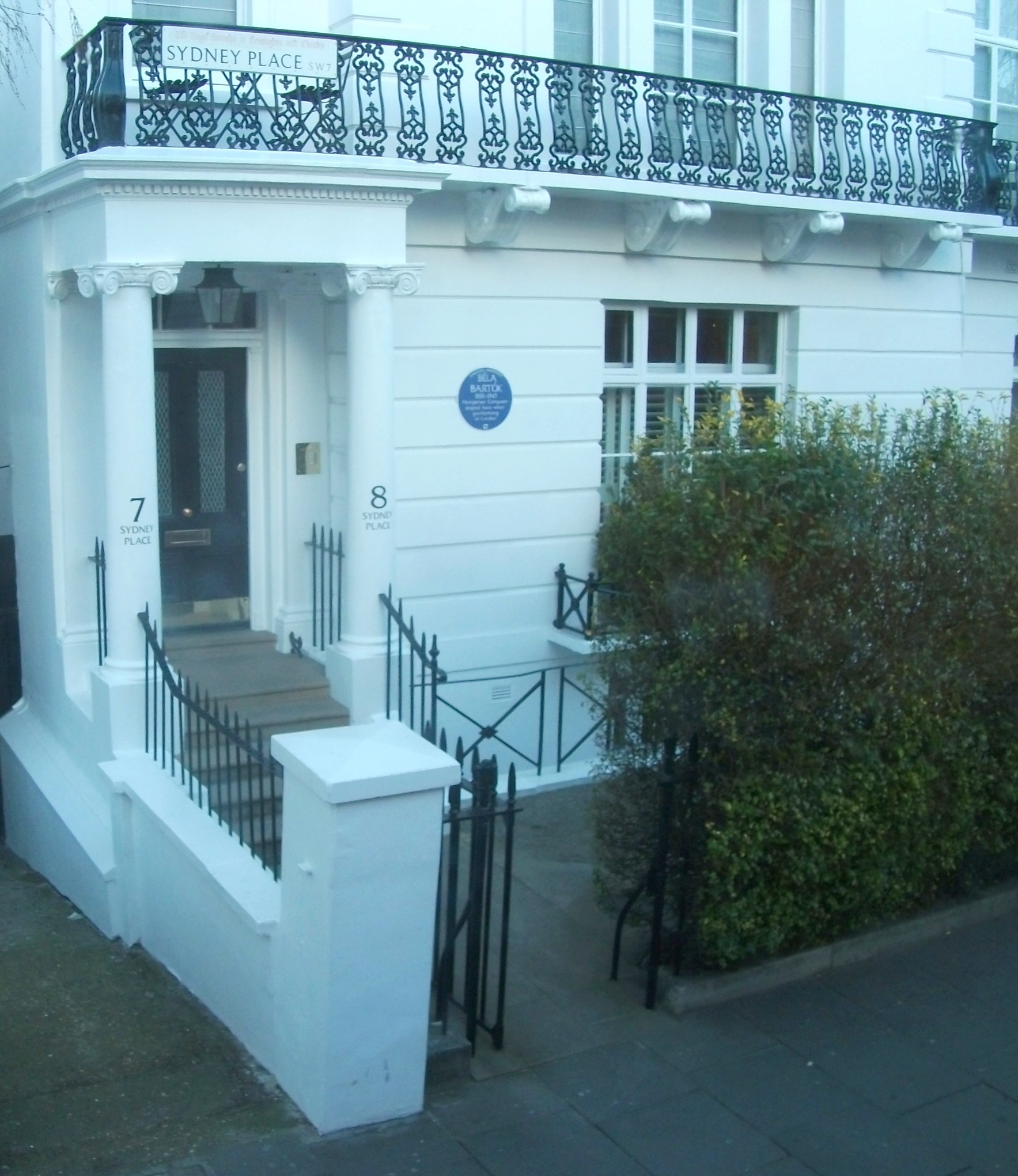 Béla Bartók blue plaque in London